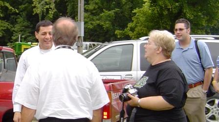 Kentucky Lieutenant Governor Daniel Mongiardo campaigns for Democratic candidates in Wickliffe, KY in early September 2008.